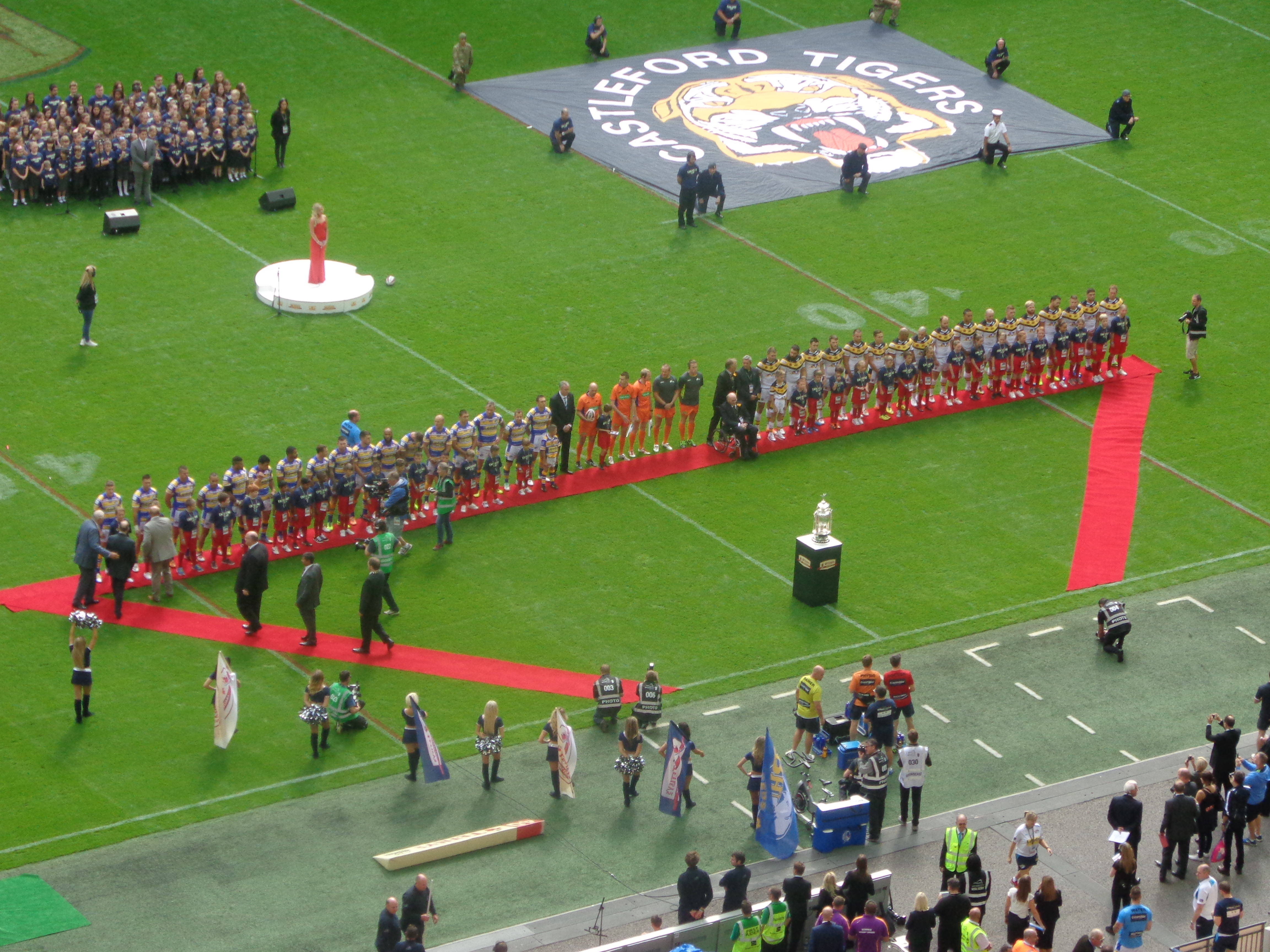 The teams line up on the pitch at Wembley Stadium before the 2014 Challenge Cup Final between Leeds Rhinos and Castleford Tigers. The match was won 23-10 by the Leeds Rhinos with Ryan Hall taking the Lance Todd Trophy and was kicked off on 3pm on Saturday the 23rd of August 2014.